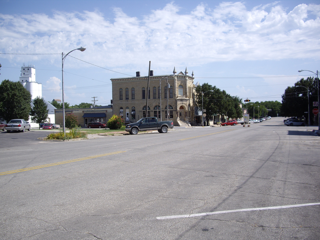 Downtown Peabody, Kansas, 666866, USA. Photo by Steve Meirowsky on August 4, 2010.